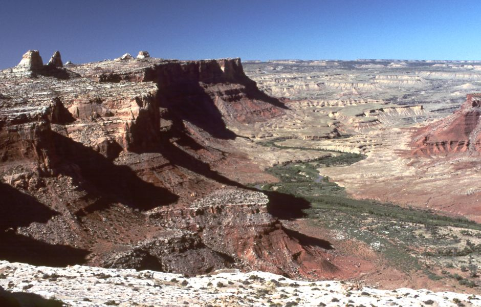 San Rafael River Gorge, Utah, looking south from the top of the Horsethief Trail.